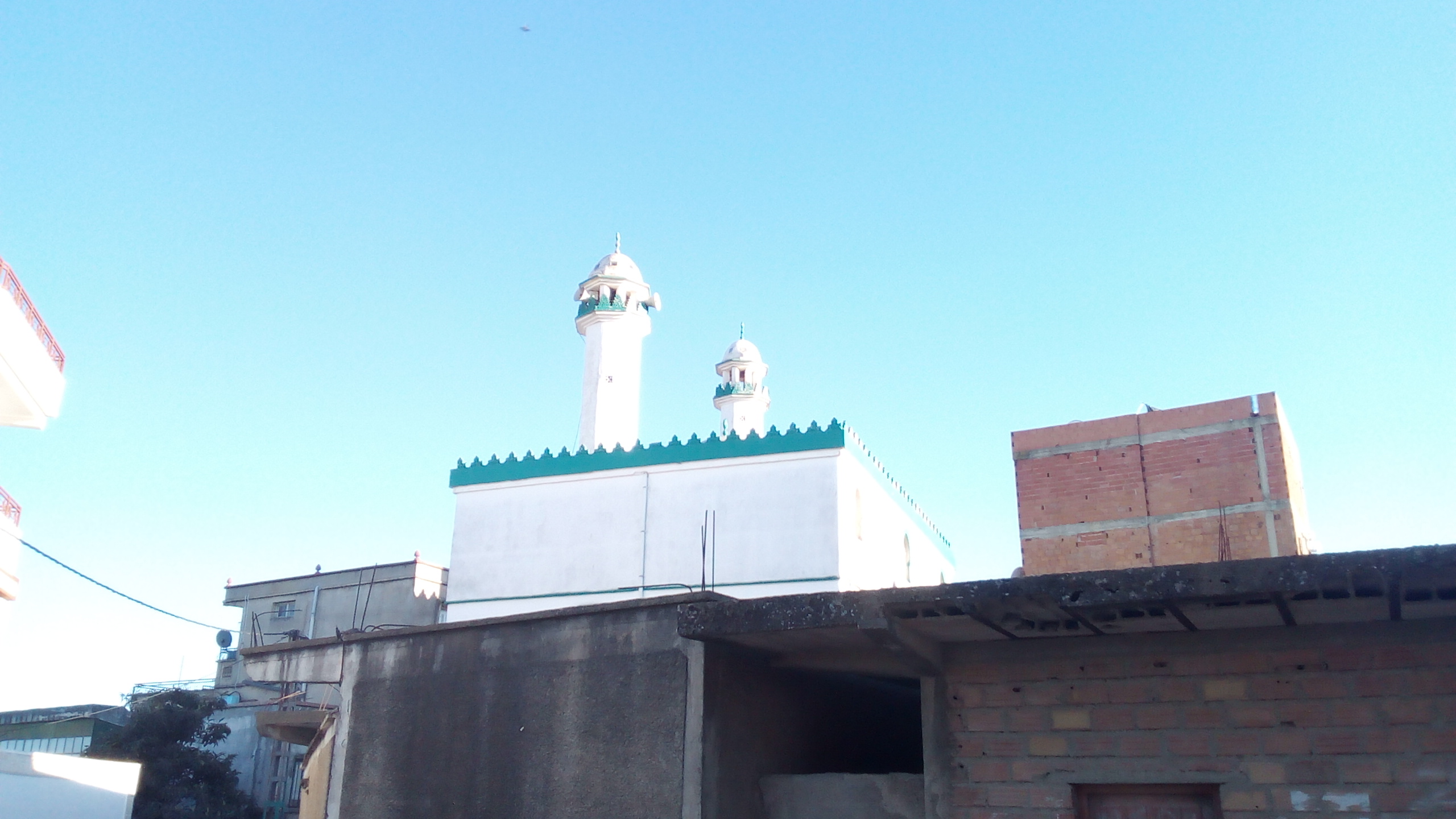 C'est une mosquée situé au village d'imezdaten région de betrouna, Tizi ouzou